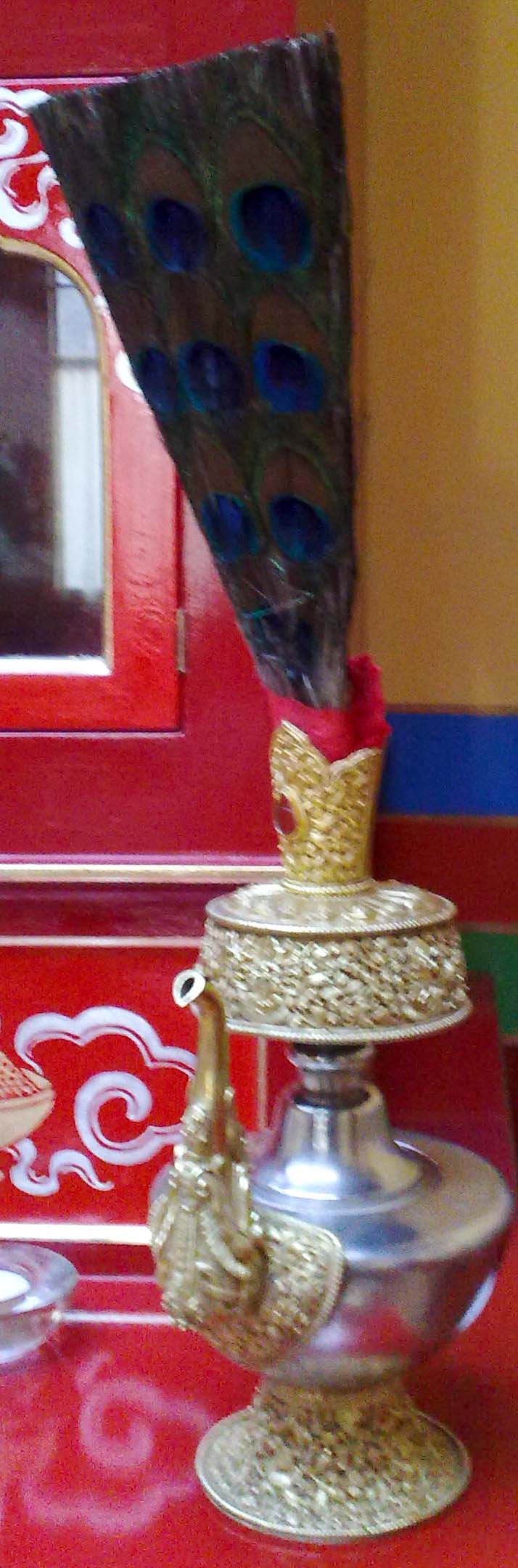 Tibetan བུམ་པ་ Bumpa vase on a Tibetan Buddhist shrine in London.